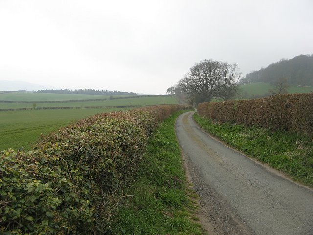 Roman Road Looking up the Uriconium direction. Locally this is known as Watling Street, but is a very sharp deviation from that of the forerunner of the A5, running south from Wroxeter to Kenchester (Uriconium to Magna)